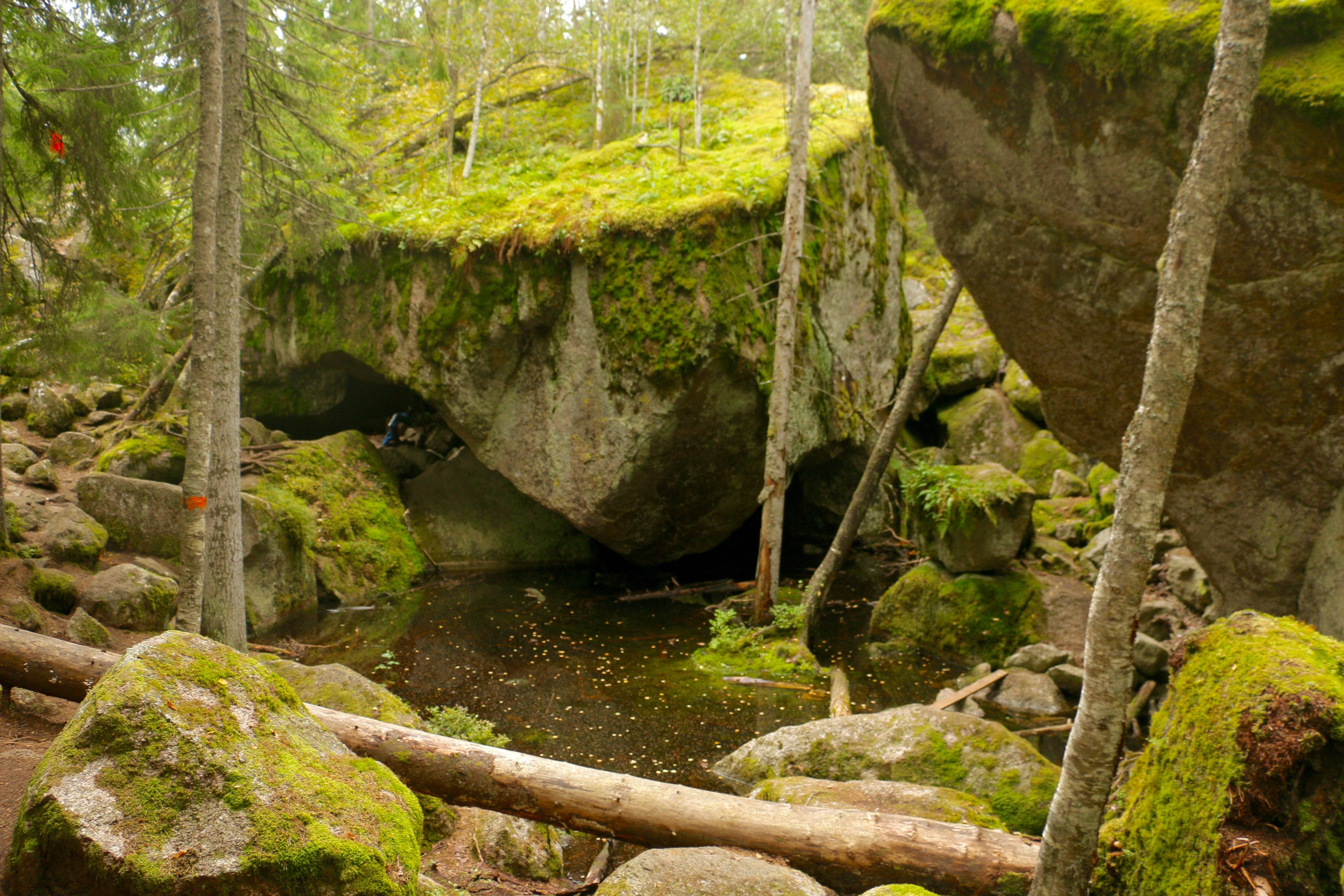 Stenkällan in Tiveden national park